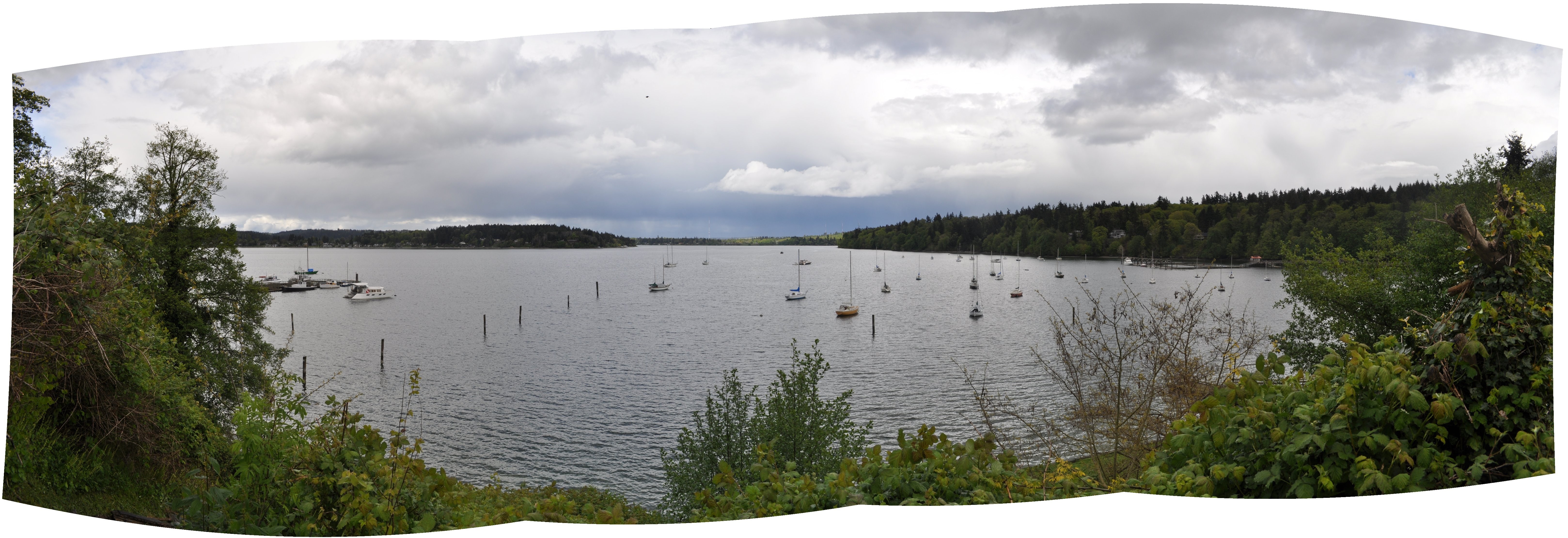 Panoramic view of Quartermaster Harbor (Puget Sound) from Dockton, Maury Island, Washington. This image was created with Hugin